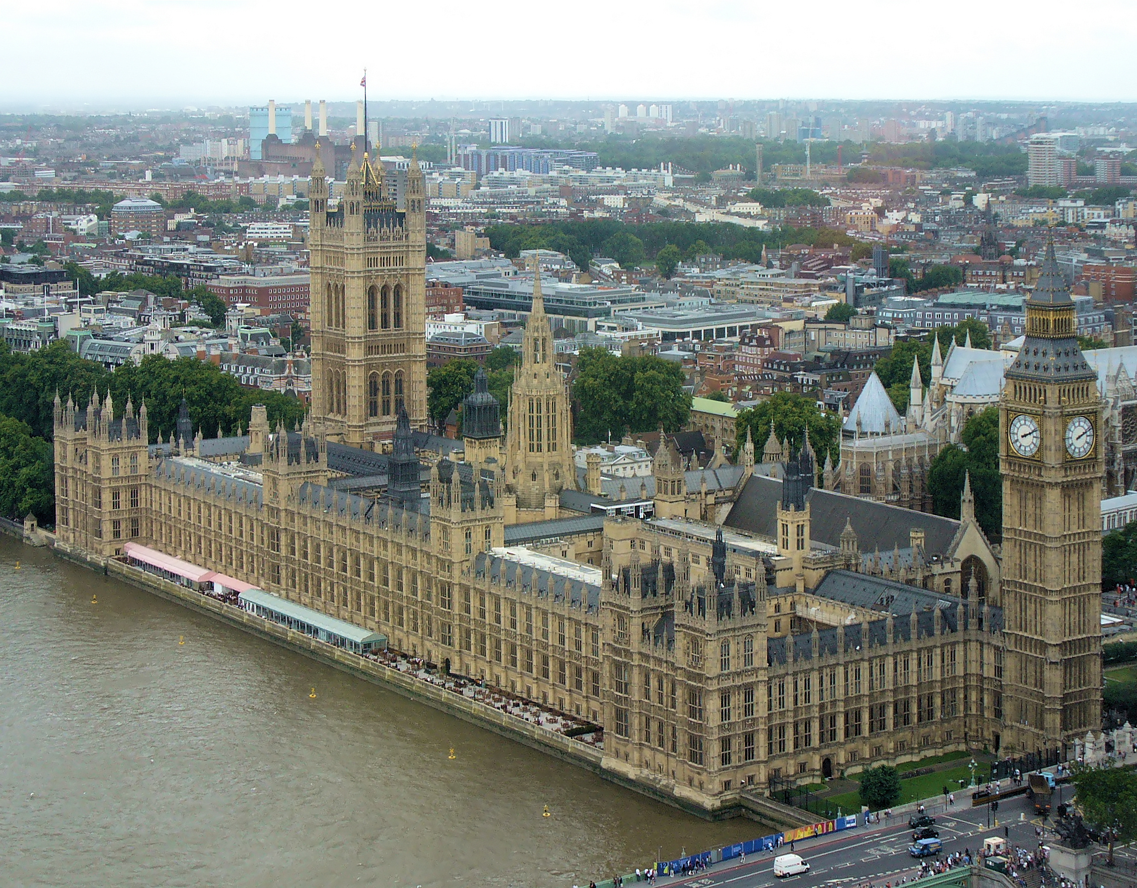 View on Westminster Palace from London Eye